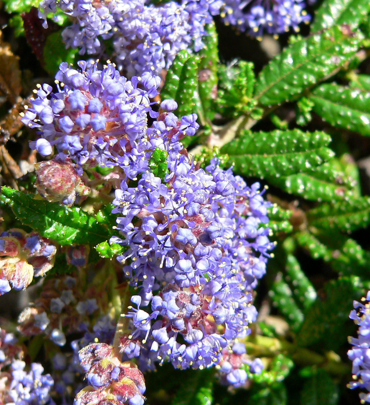 Photo of Ceanothus hearstiorum at the Regional Parks Botanic Garden, Berkeley, California